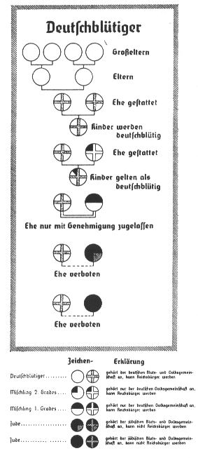 Definition of Deutschblütiger (pure "German blood" without Jewish admixture) and allowed intermarriages according to 1935 Nuremberg laws.